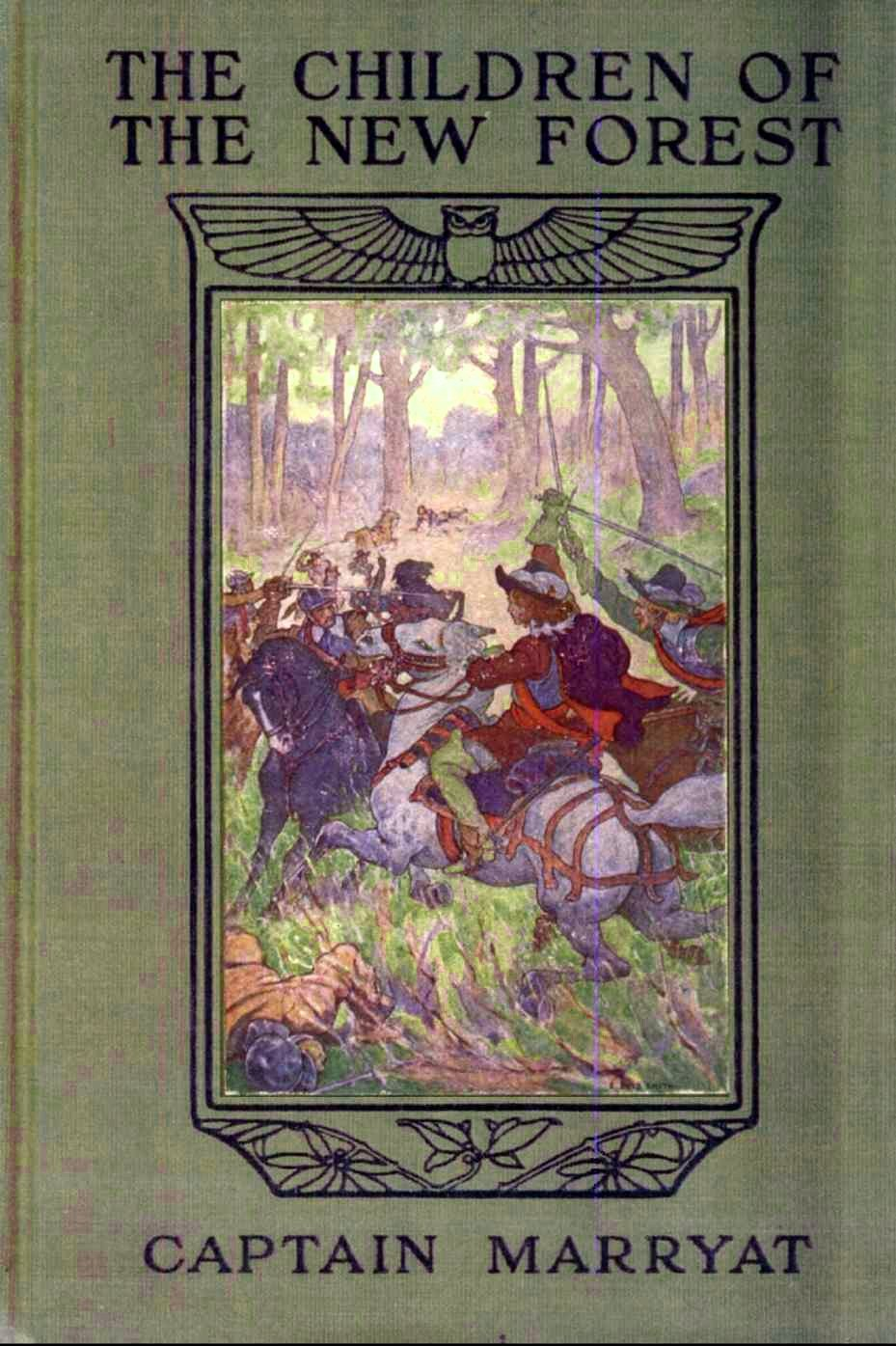 Cover of the novel The Children of the New Forest by Frederick Marryat. Illustrated by E. Boyd Smith. Published New York: Henry Holt and Company.